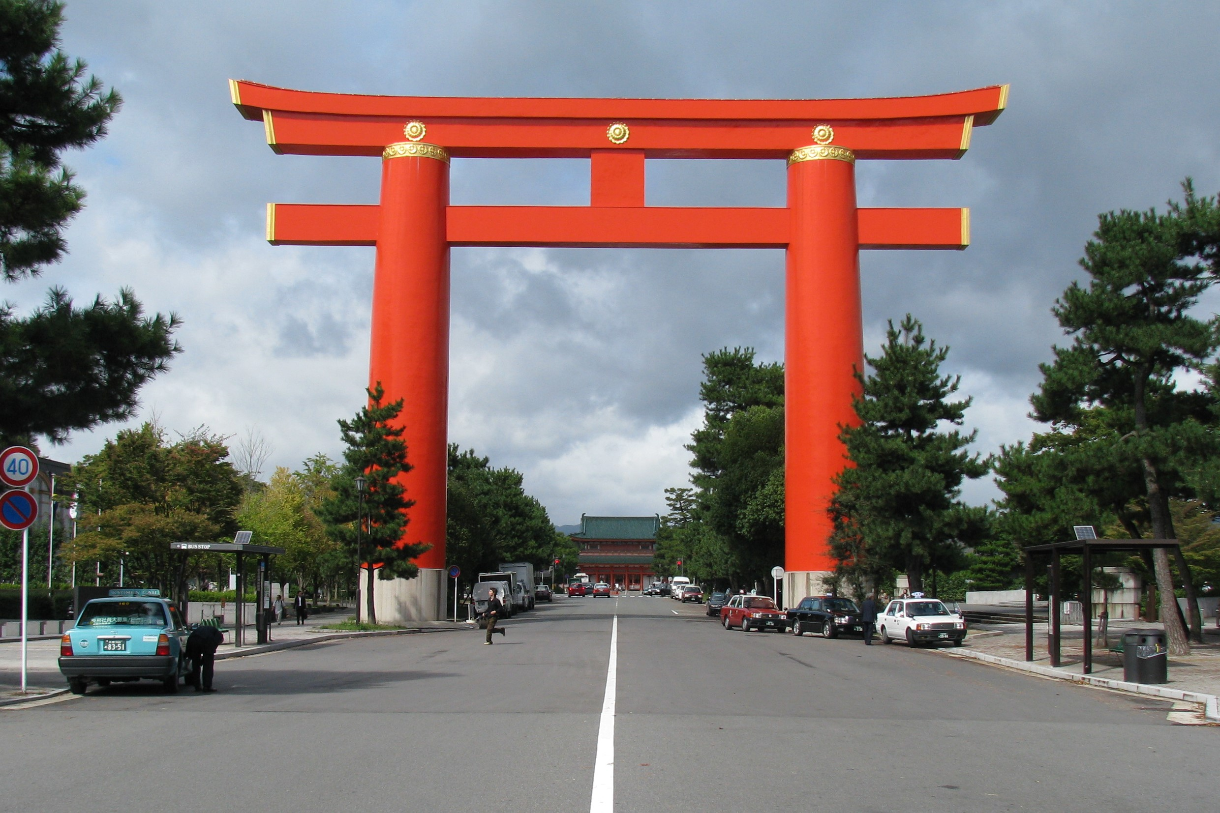 Heian-jingû (Kyoto) Torii